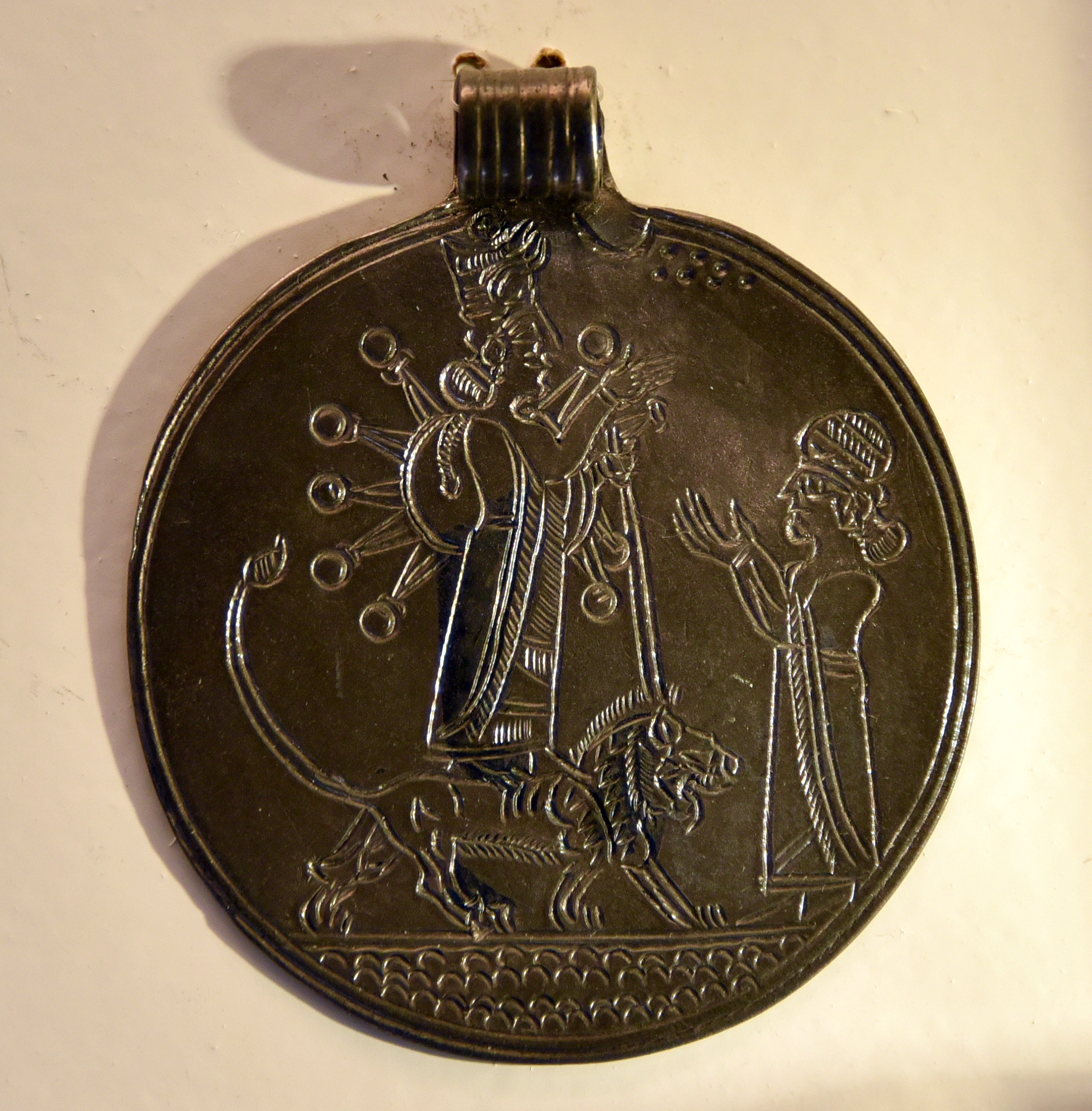 Silver pendant. Devotee standing before the goddess Ishtar (who stands on a lion). Worship scene. From Sam'al, Turkey. 9th to 7th century BCE. Pergamon Museum, Berlin, Germany.